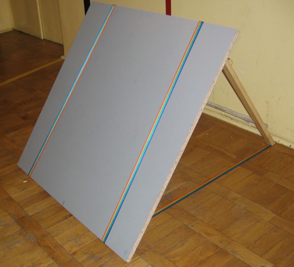 Tchoukball self-made wooden 'frame'.